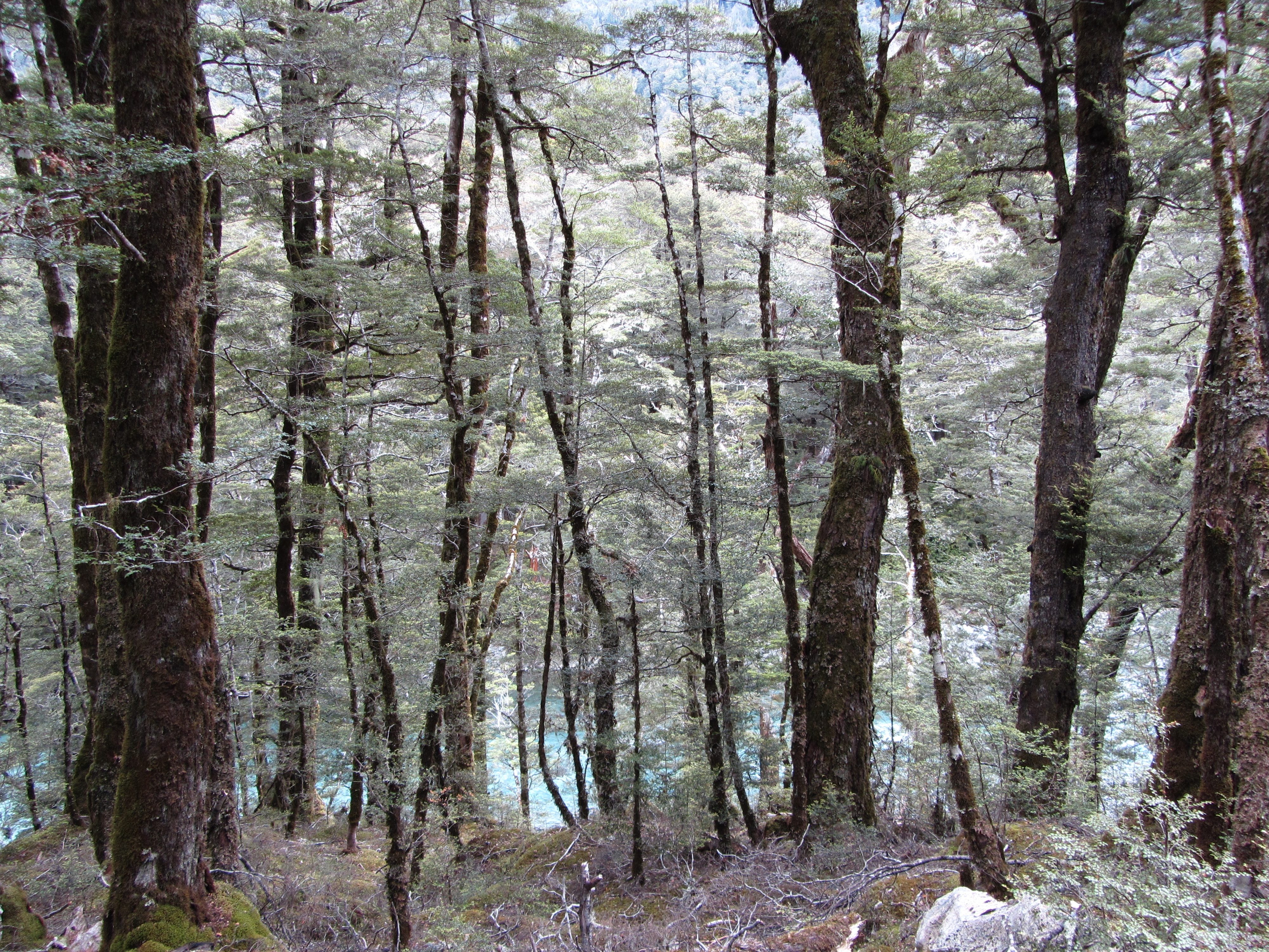 Nothofagus sp.